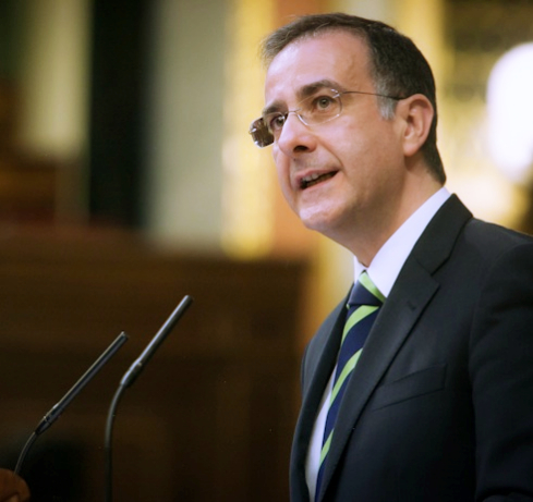 Juan de Dios en la Tribuna